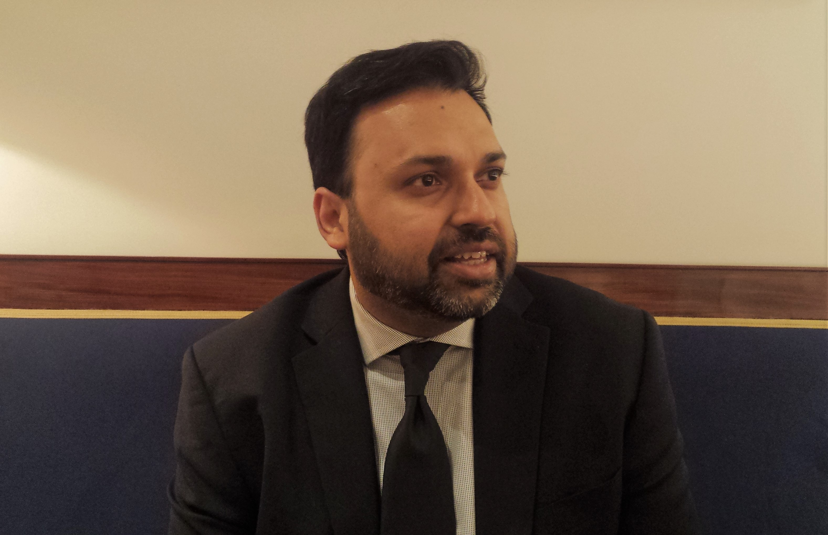 Ali Amjad Rizvi, physician, science communicator, activist and author of The Atheist Muslim: A Journey from Religion to Reason (2016).